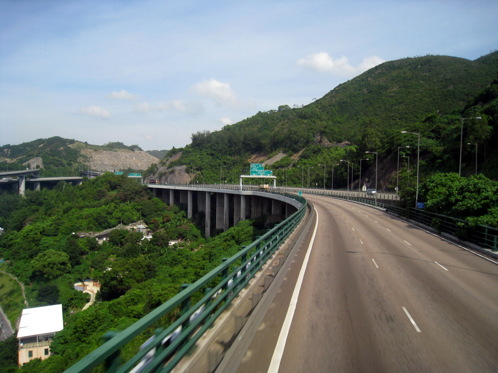 Tuen Mun Road Ting Kau Section 屯門公路汀九段